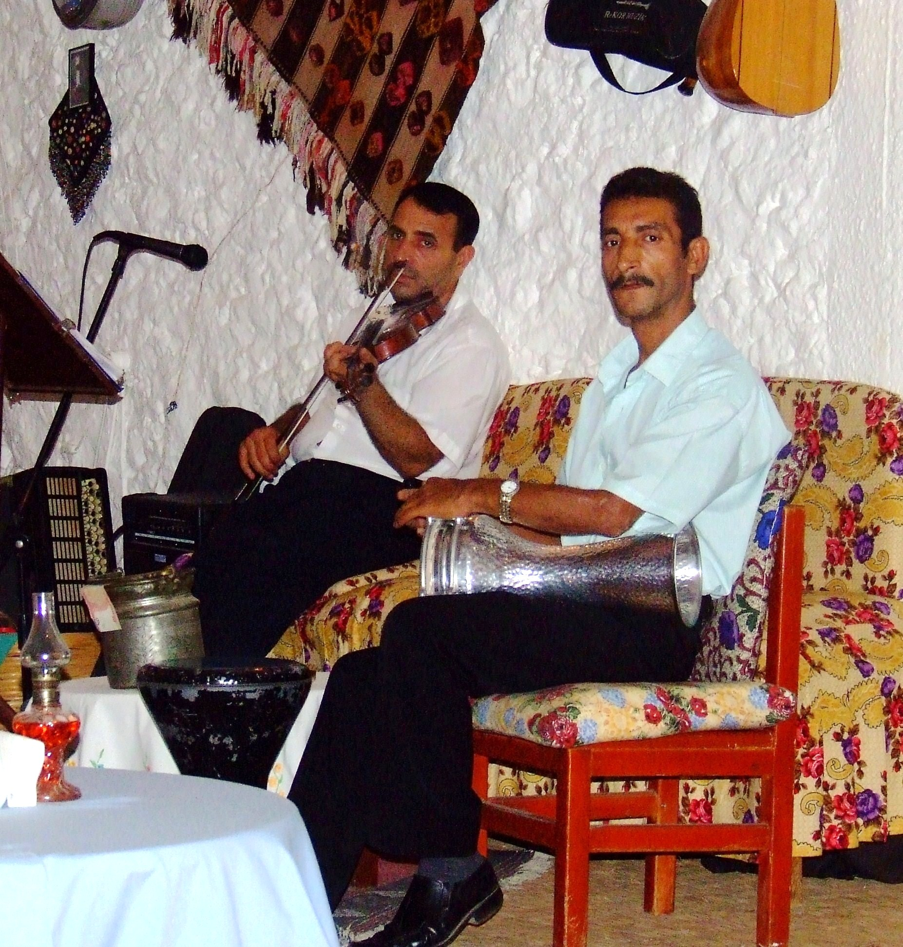 A pair of Turkish folk musicians in Kalkan, Turkey